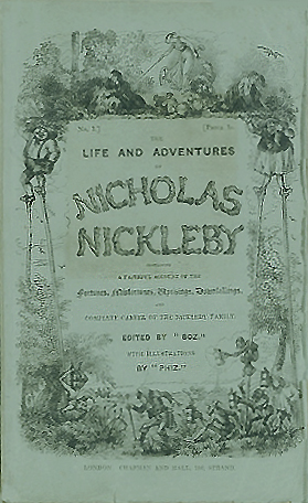 Cover serial, "Nicholas Nickleby" by Charles Dickens